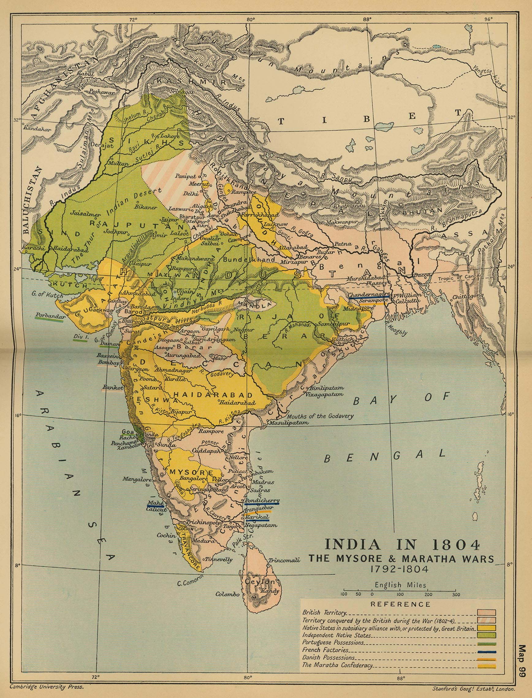 Map of India in 1804 from Cambridge Modern History Atlas, 1912